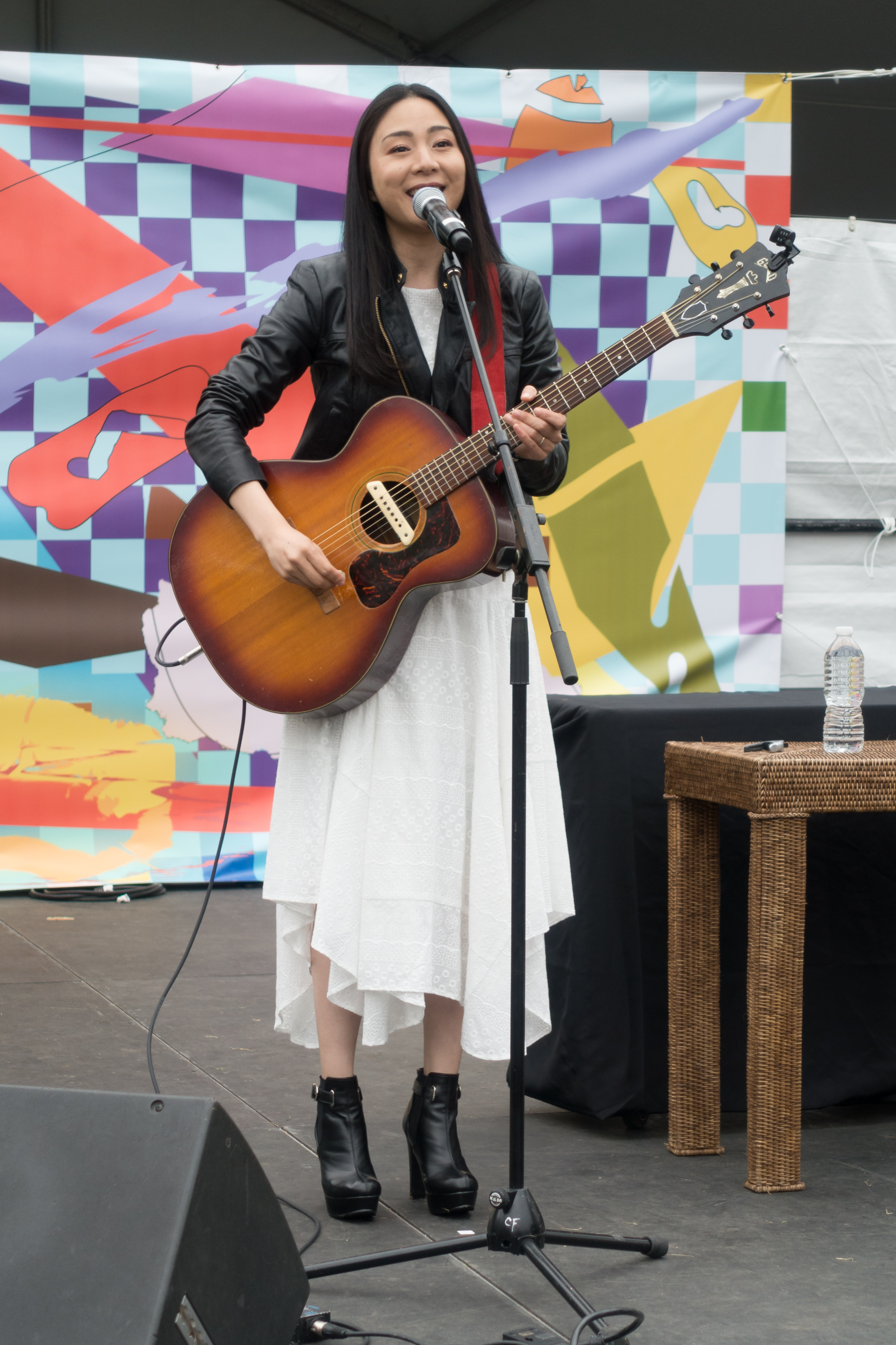 Kana Uemura (Ka-Na) performing on the J-Lounge Stage at the Plant Family Collection, Brooklyn Botanic Garden, Brooklyn, New York City.